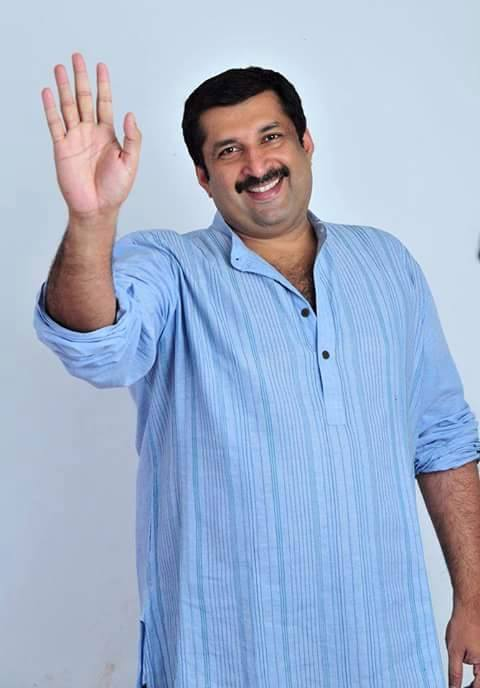 Jayan Cherthala official